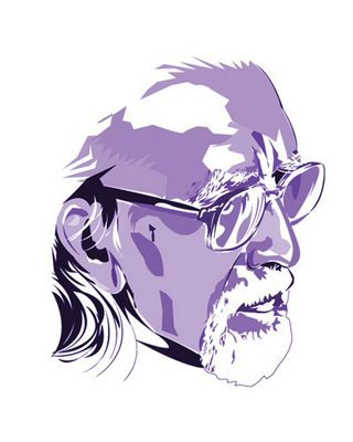 Picture of O. V. Vijayan, an Indian author and cartoonist